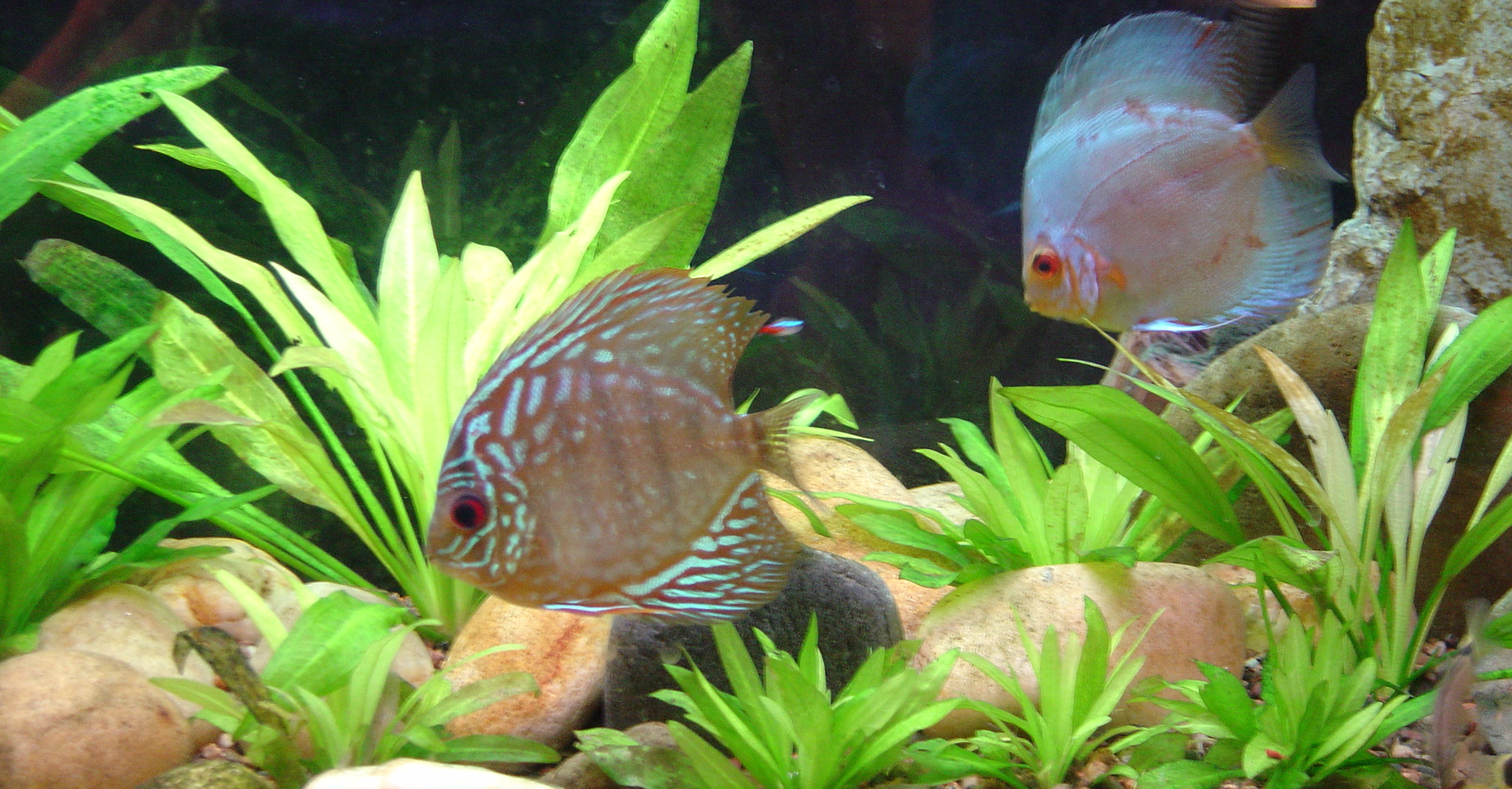 Photograph of two cute discus (Symphysodon spp.). On the right is the 'Blue Diamond' variety and on the left a 'Red Turquoise'. There is also a neon tetra (Paracheirodon innesi) present and the plants are Amazon swords (Echinodorus bleheri).